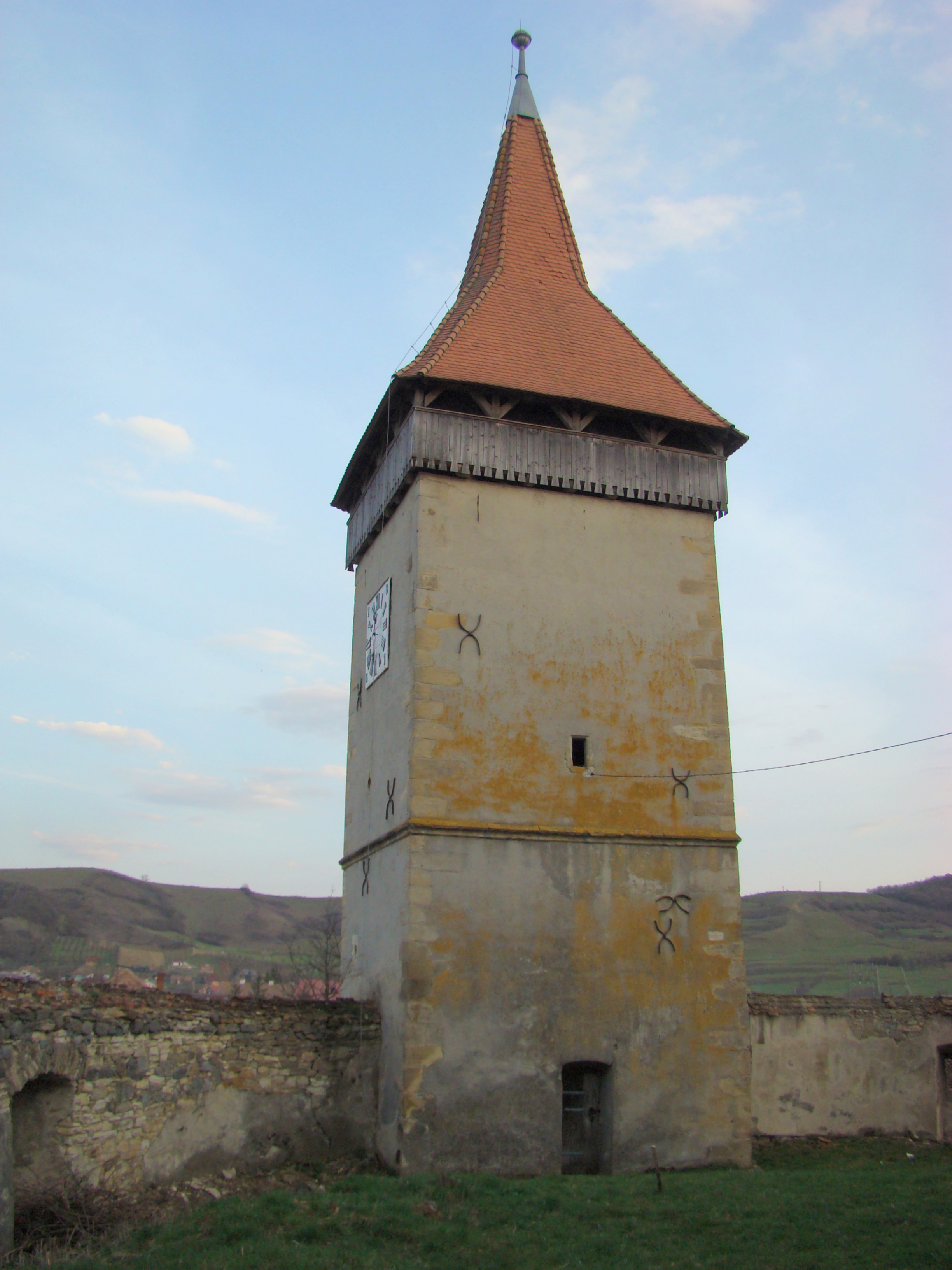 Reformed (former lutheran church) in Lechința, Bistrița-Năsăud county, Romania